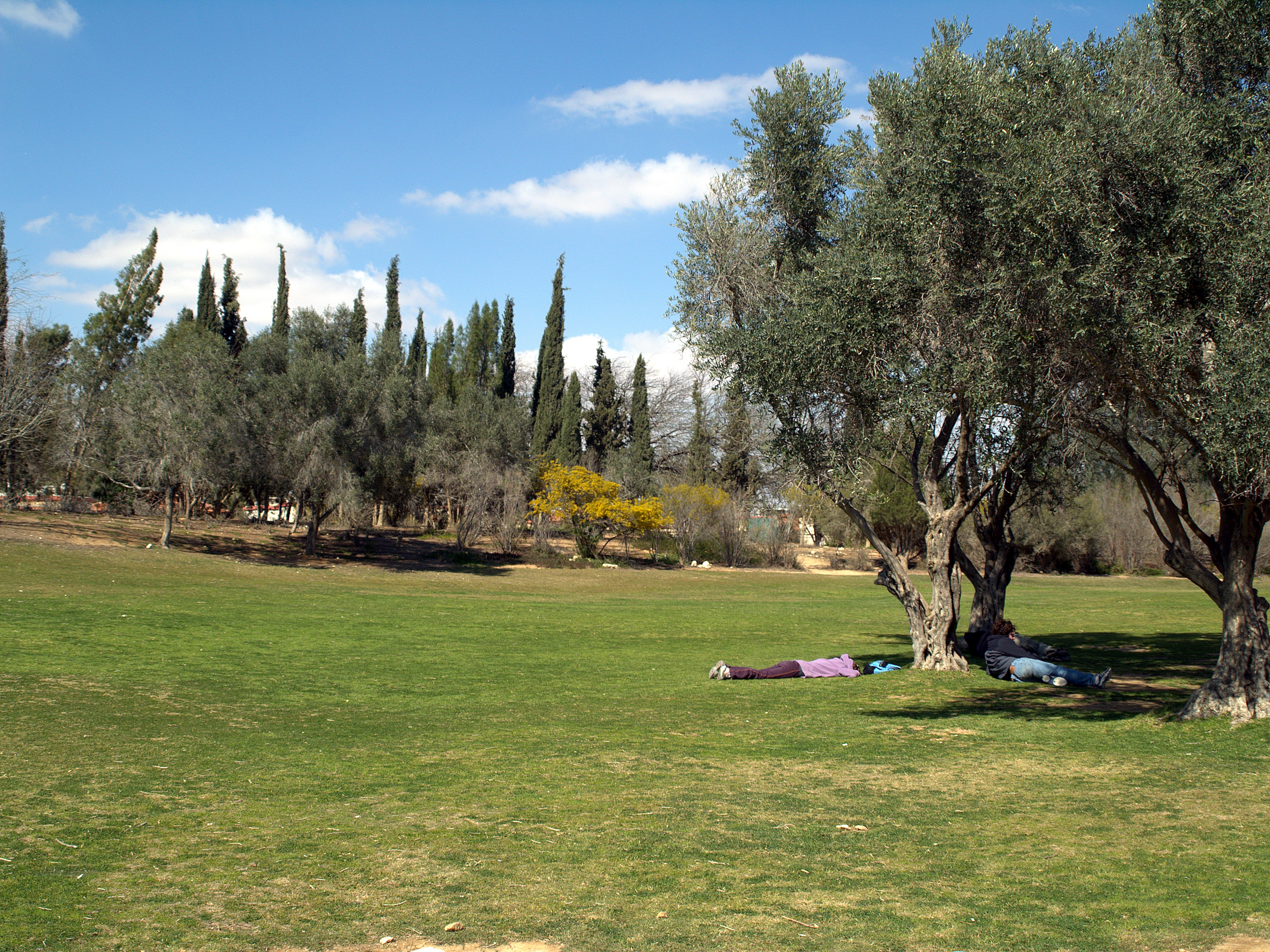 People nap in the shade at Midreshet Ben Gurion. Located in the Negev desert of Israel.